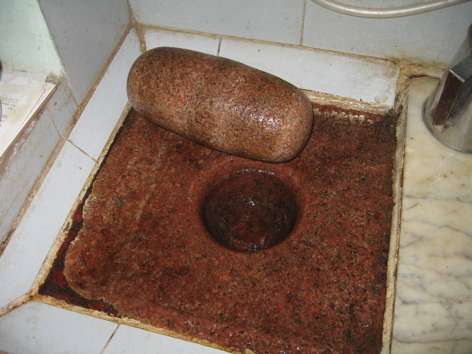 Traditional grinding stone used for making chutney, dose batter, idli batter etc.,.